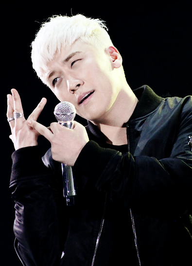 Seungri in Big Bang Made Tour Final in Seoul, March 6, 2016